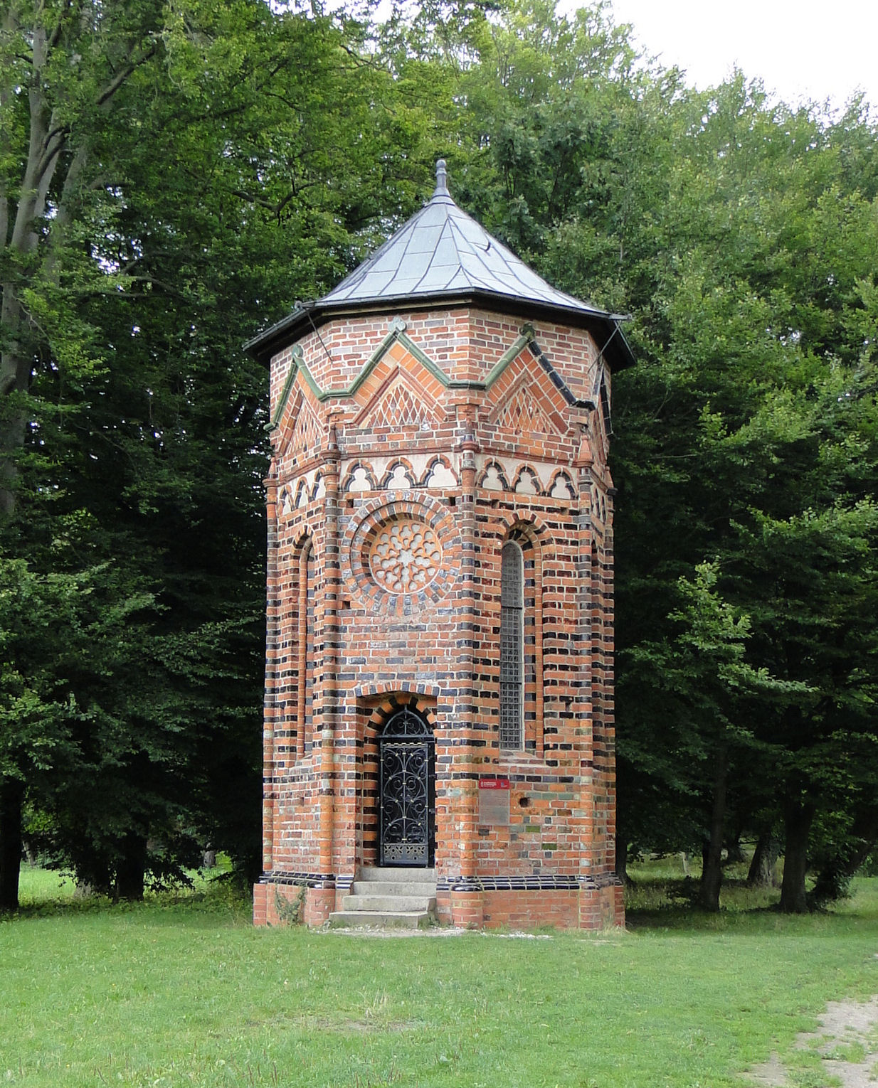 Beinhaus (leg house) at Doberan Minster in Bad Doberan, district Bad Doberan, Mecklenburg-Vorpommern, Germany